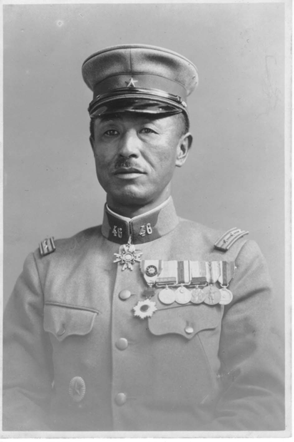 Colonel Motoo Sawaki